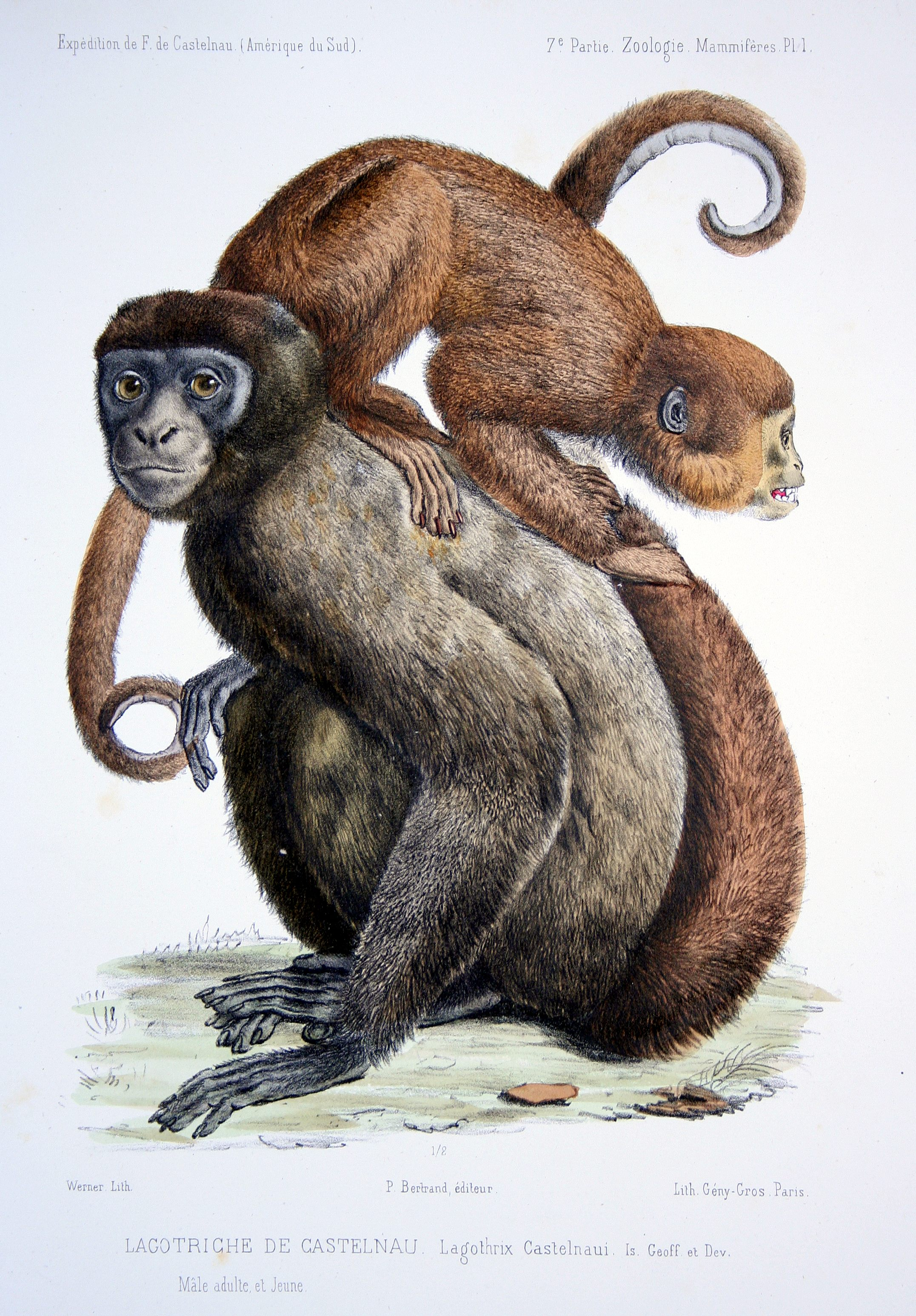 Lagothrix Castelnaui Is. Geoff. et Dev. = Lagothrix poeppigii Schinz, 1844 Top: Juvenile Bottom: Adult male